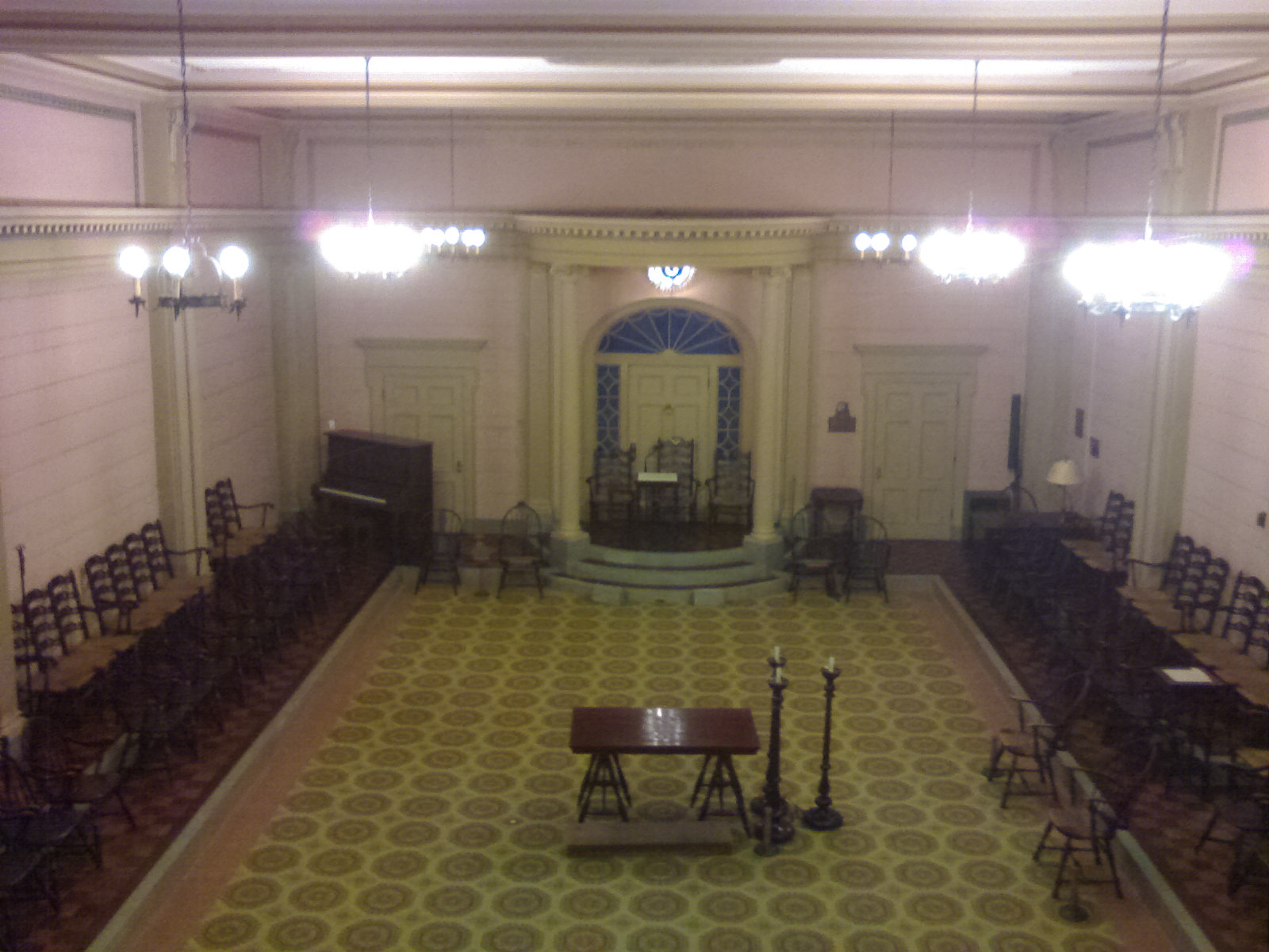 Inside a masonic lodge room at Salt Lake Masonic Temple.